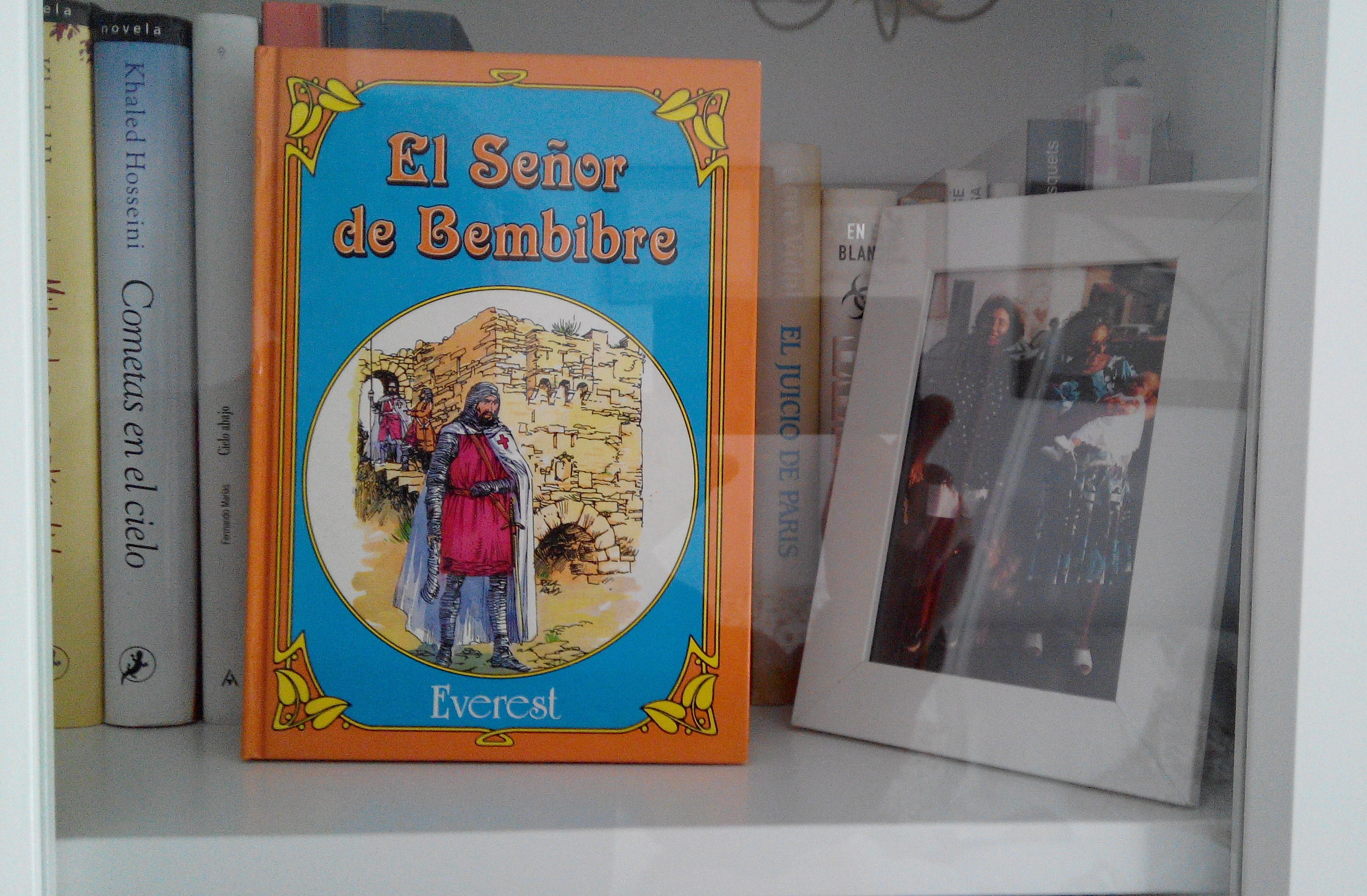 The Lord of Bembibre. Adaptation in juvenile edition.